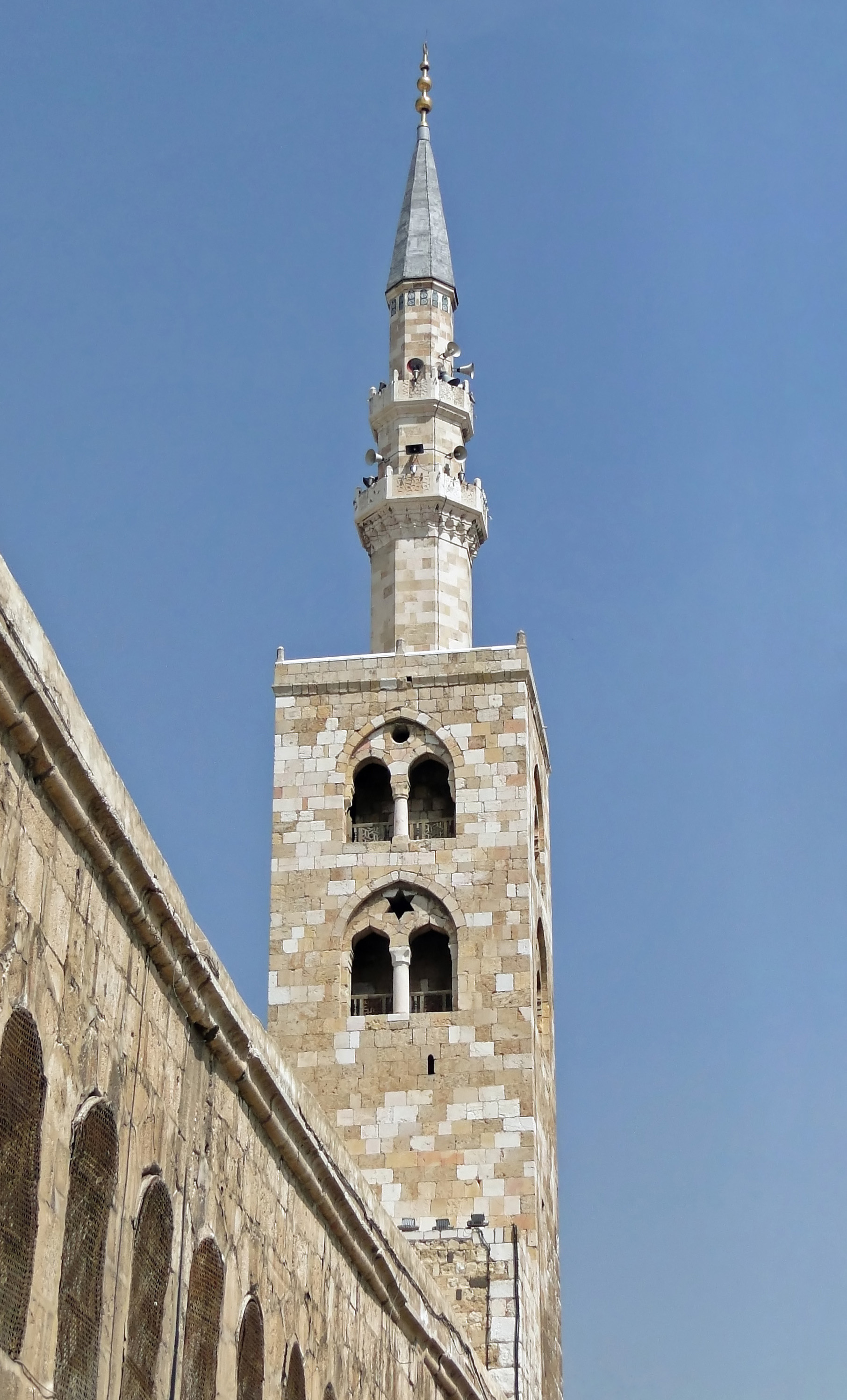 Minaret of Jesus, Umayyad Mosque, Damascus, Syria